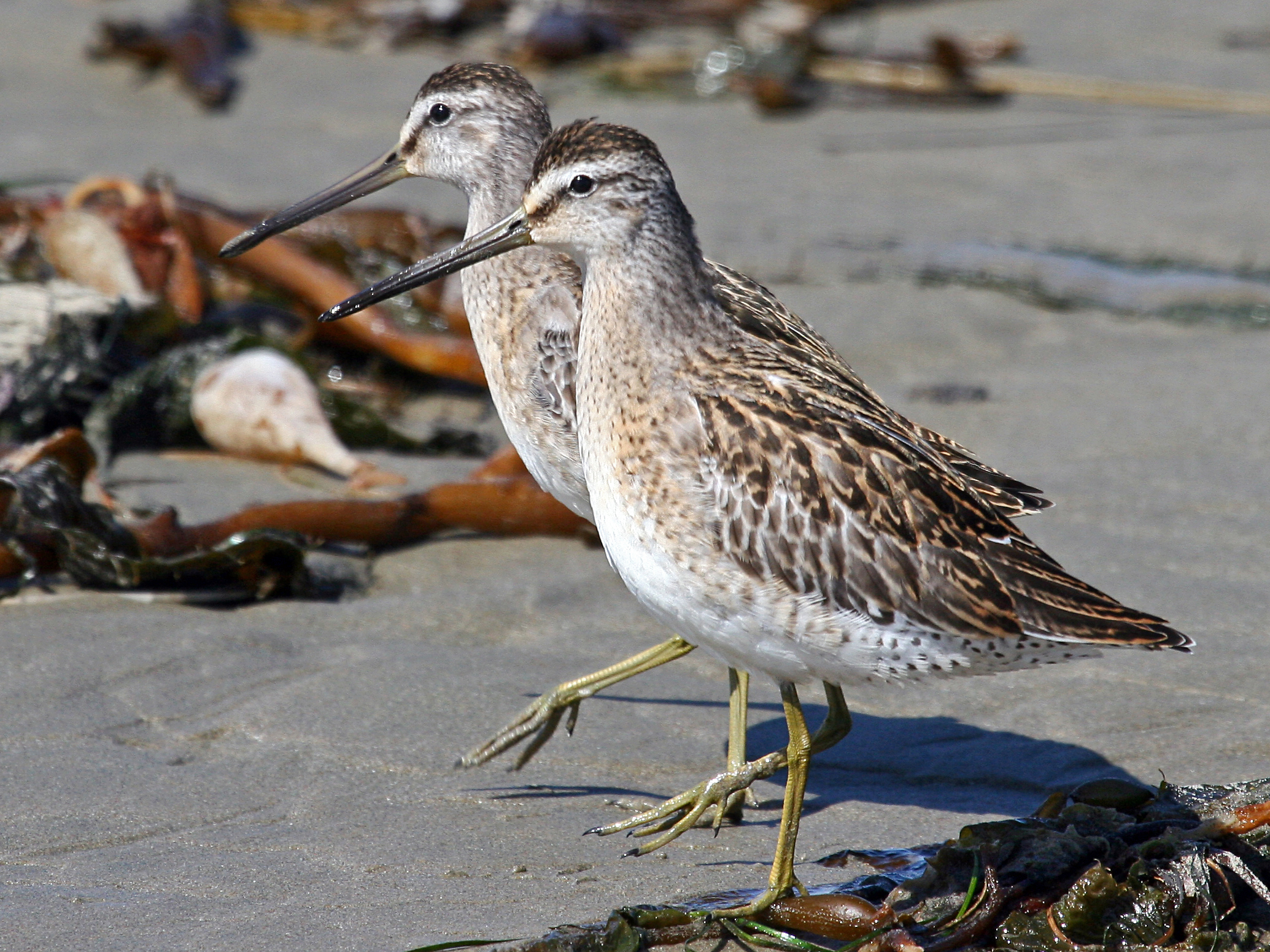 Dowitcher (pair), Short-billed, a bird - Morro Strand State Beach, Morro Bay, CA - photo by Mike Baird